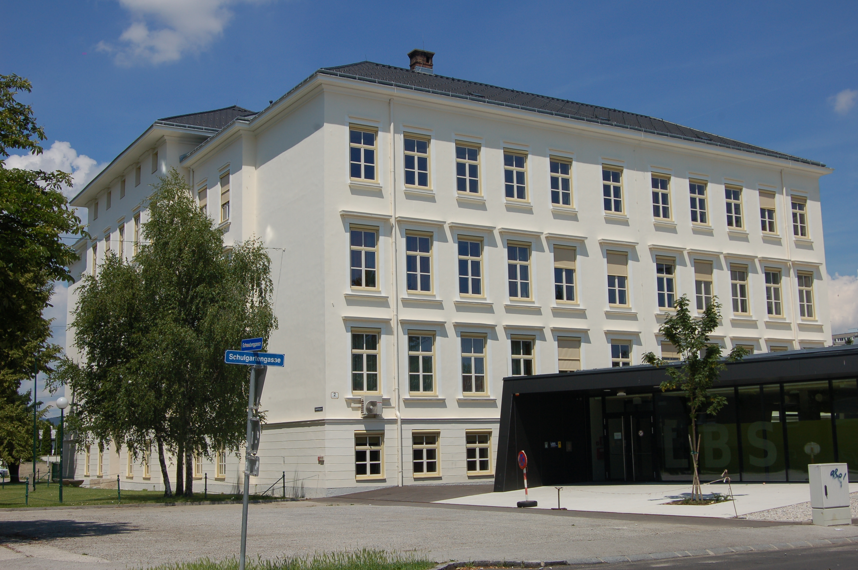 Province professional school in Schneeberggasse, Wiener Neustadt, Lower Austria (view from intersection with Schulgartengasse)